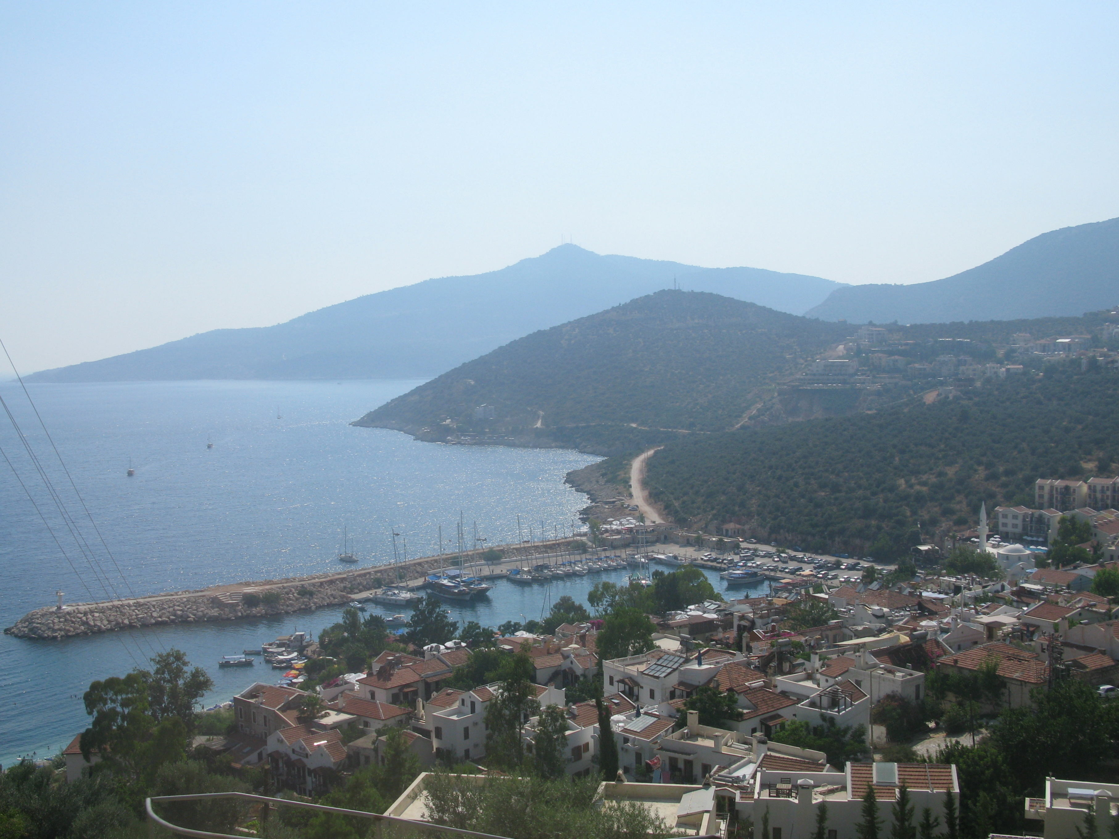 View on the harbour from the main road to Kaş of Kalkan, Turkey